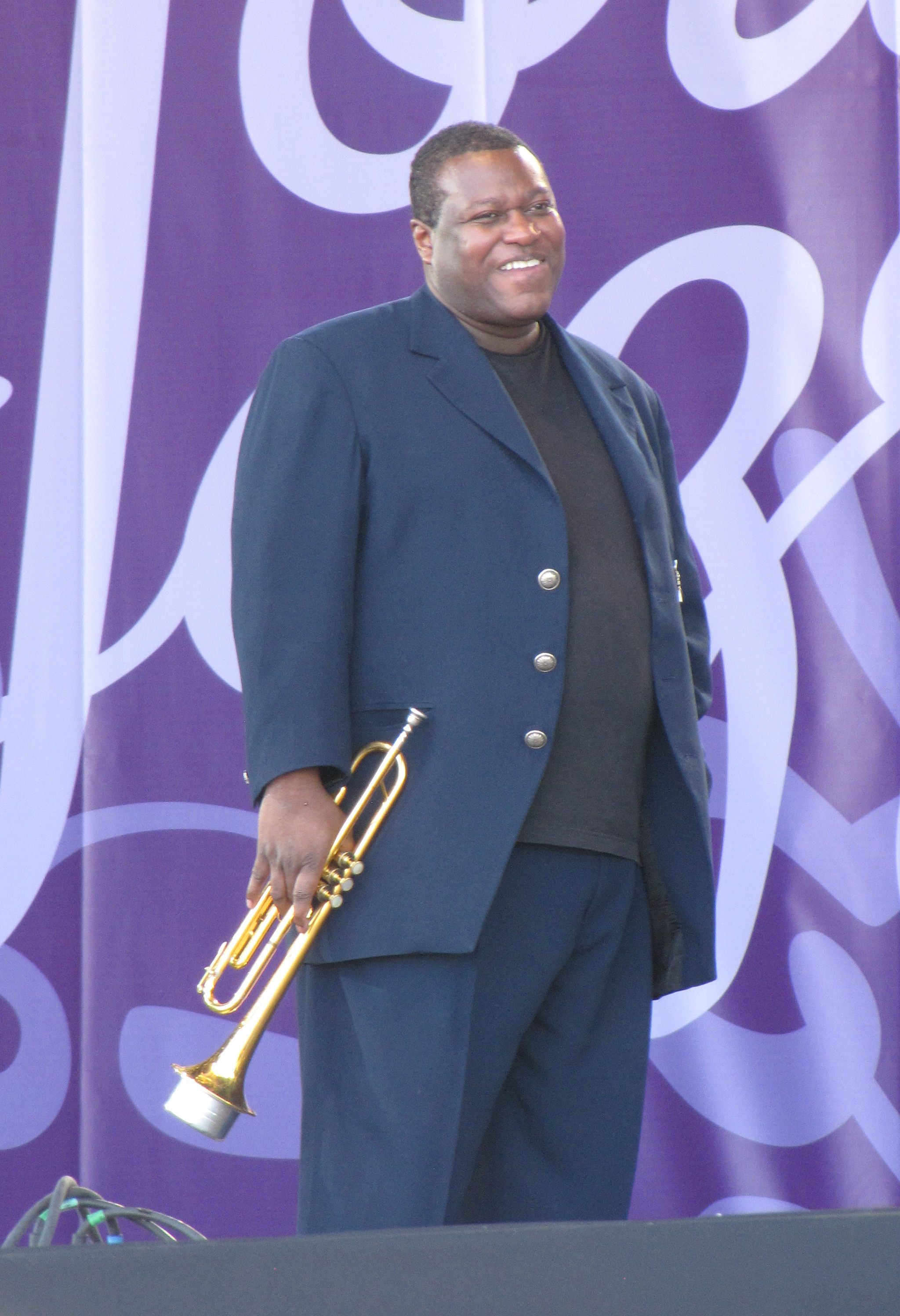 Trumpeter Wallace Roney playing with the band "Miles Smiles" at Pori Jazz festival in 2012 in Pori, Finland.